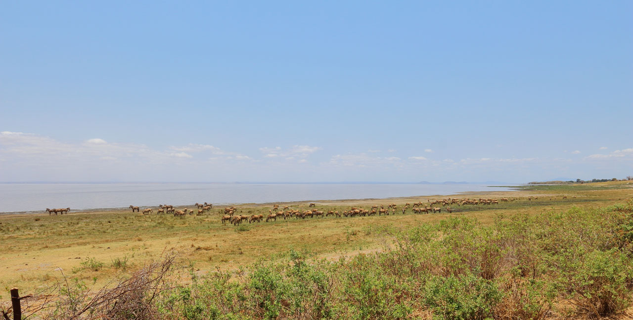 Gnus and zebras on coast of Manyara lake